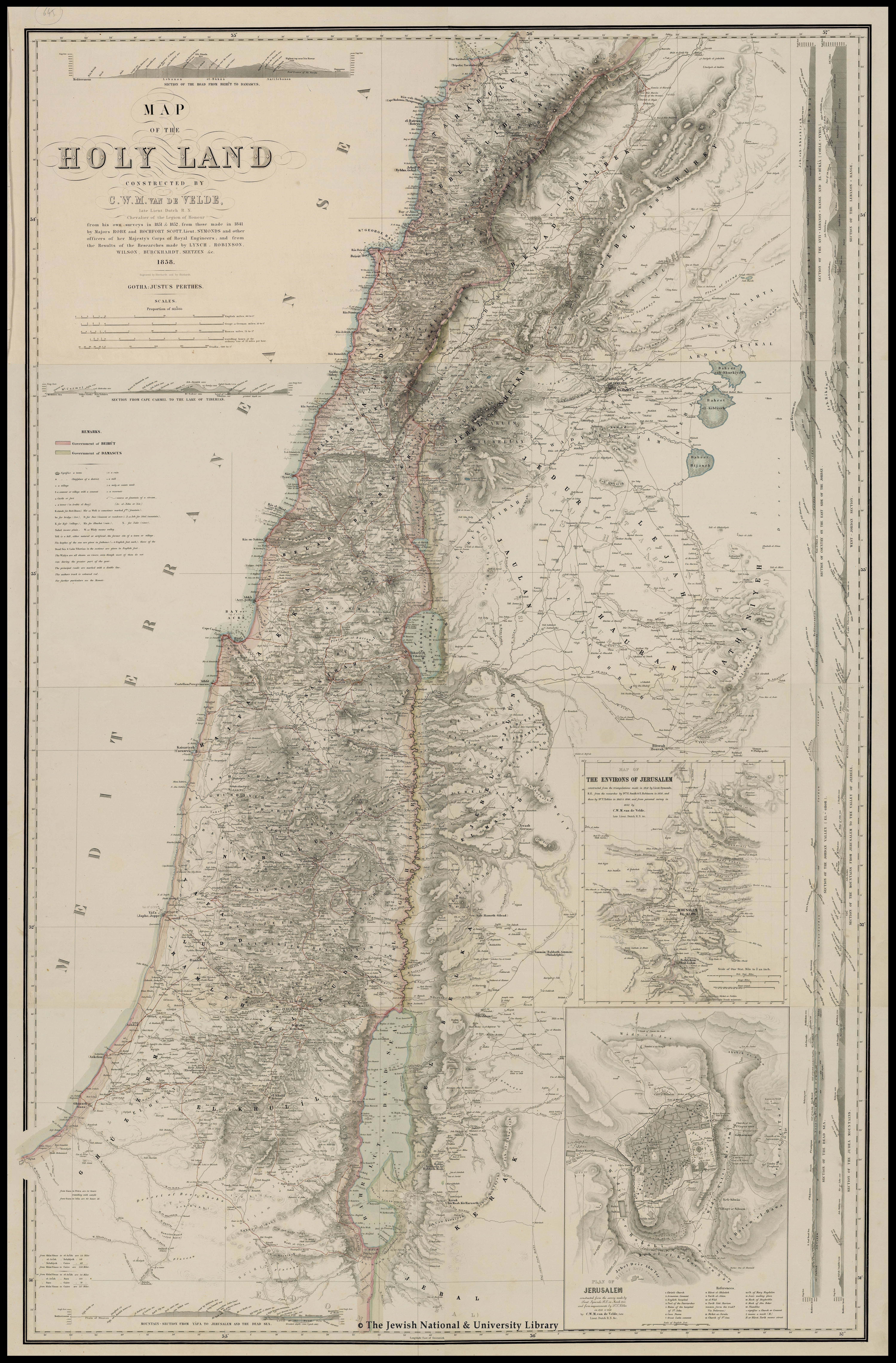 Map of the Holy Land constructed by C.W.M. Van de Velde... from his own surveys in 1851 & 1852, from those made in 1841 by Majors Robe and Rochfort Scott, Lieut. Symonds... and from the Results of the Researches made by Lynch, Robinson, Wilson, Burckhardt, Seetzen & c. Engraved by Eberhardt and by Stichardt.